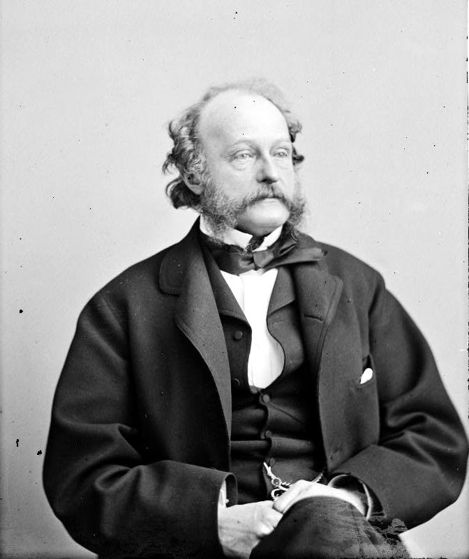 Hon. John Van Buren, son of Martin Van Buren. Library of Congress Prints and Photographs Division, Brady-Handy Photograph Collection.